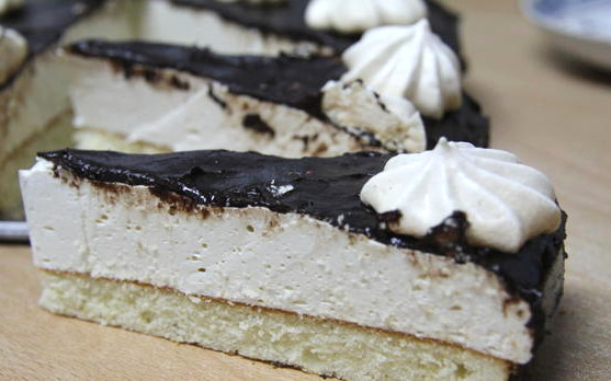 Homemade Russian "Bird's milk" cake. The recipe is close to the original one produced by the Moscow Ptichye Moloko factory.